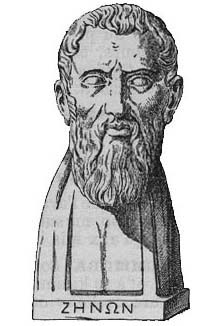 Engraving depicting the marble bust of Zeno of Citium. Farnese Collection, National Archaeological Museum of Naples (cat. no. 6128). By comparison with the bronze bust from the Villa of the Papyri in Herculaneum, it was established that this portrait is that of the Stoic philosopher Zeno of Citium, and not Zeno of Elea or Zeno of Sidon.